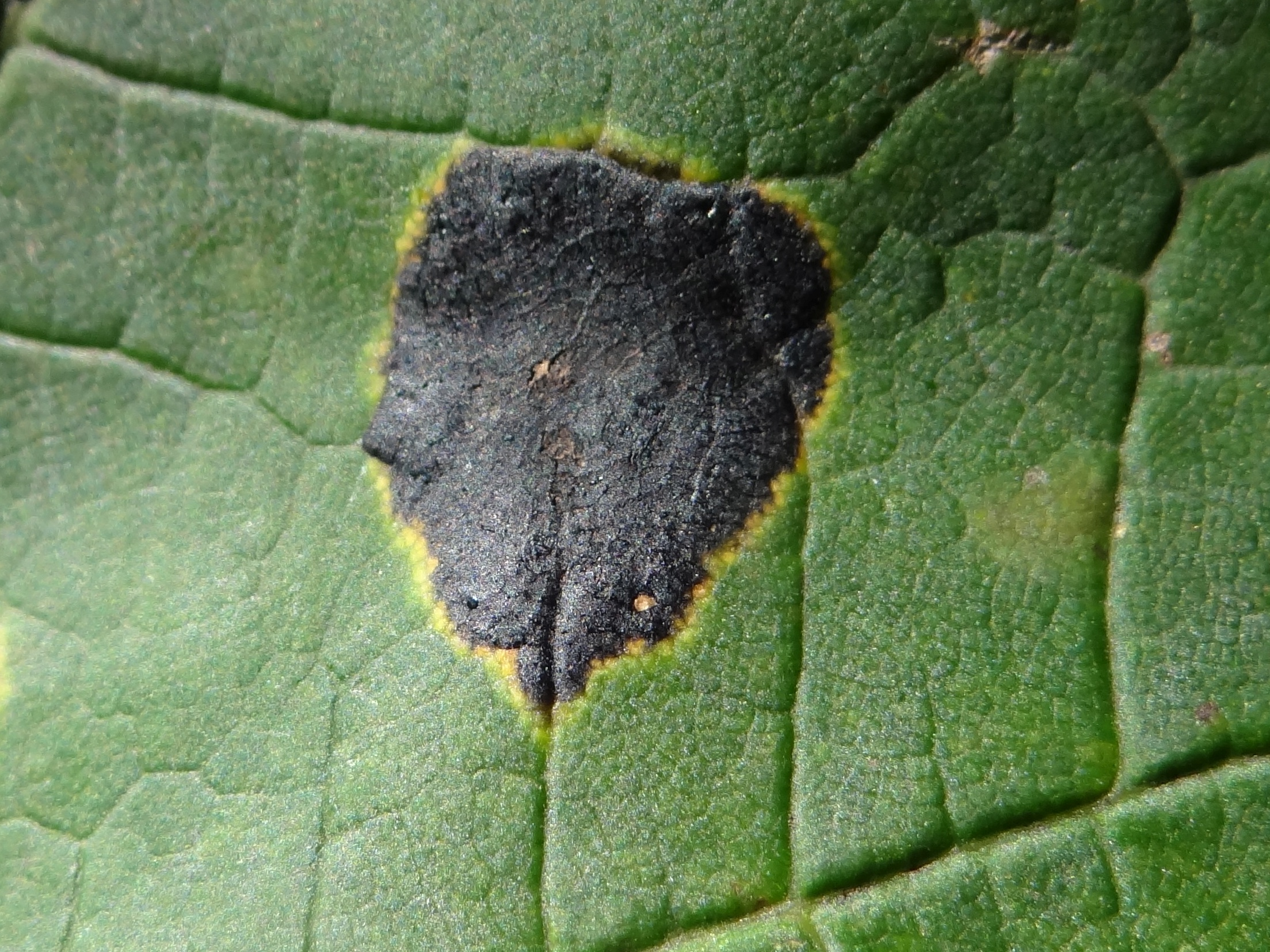 Rhytisma acerinum on Acer platanoides. Location: Pland, Rajbrot